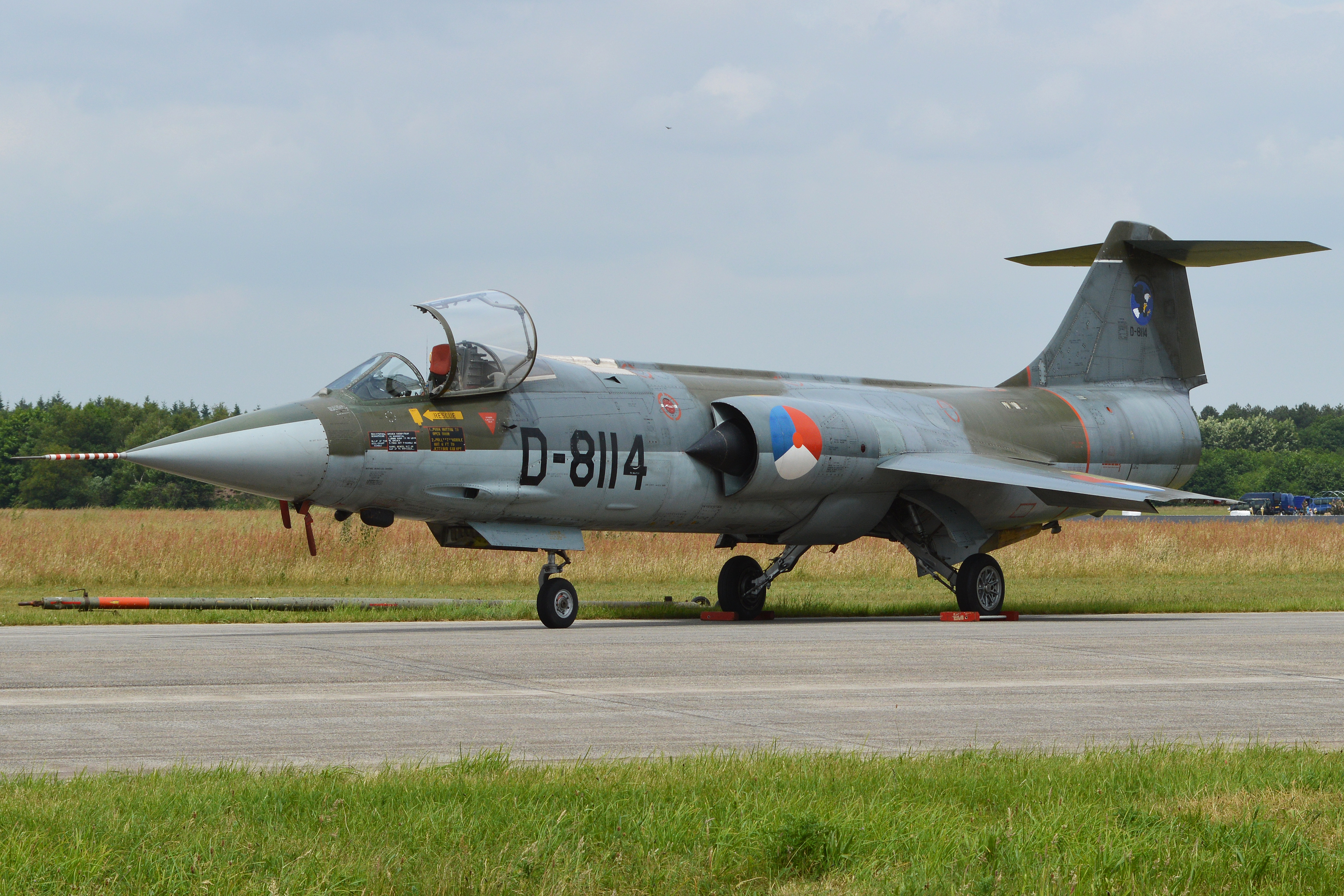 This genuine RNthAF Starfighter is in amazingly original condition and was parked on the flightline as if it was still operational (wishful thinking!). c/n 683-8114. On display at the '100th Anniversary of Dutch military aviation'. Volkel Airbase, Netherlands. 14-6-2013